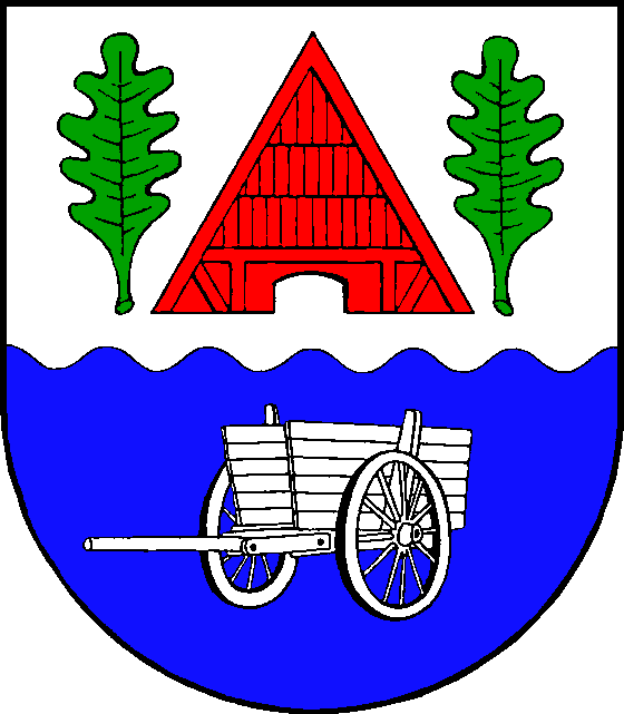 Coat of arms of the municipality Mühbrook in Schleswig-Holstein, Germany.